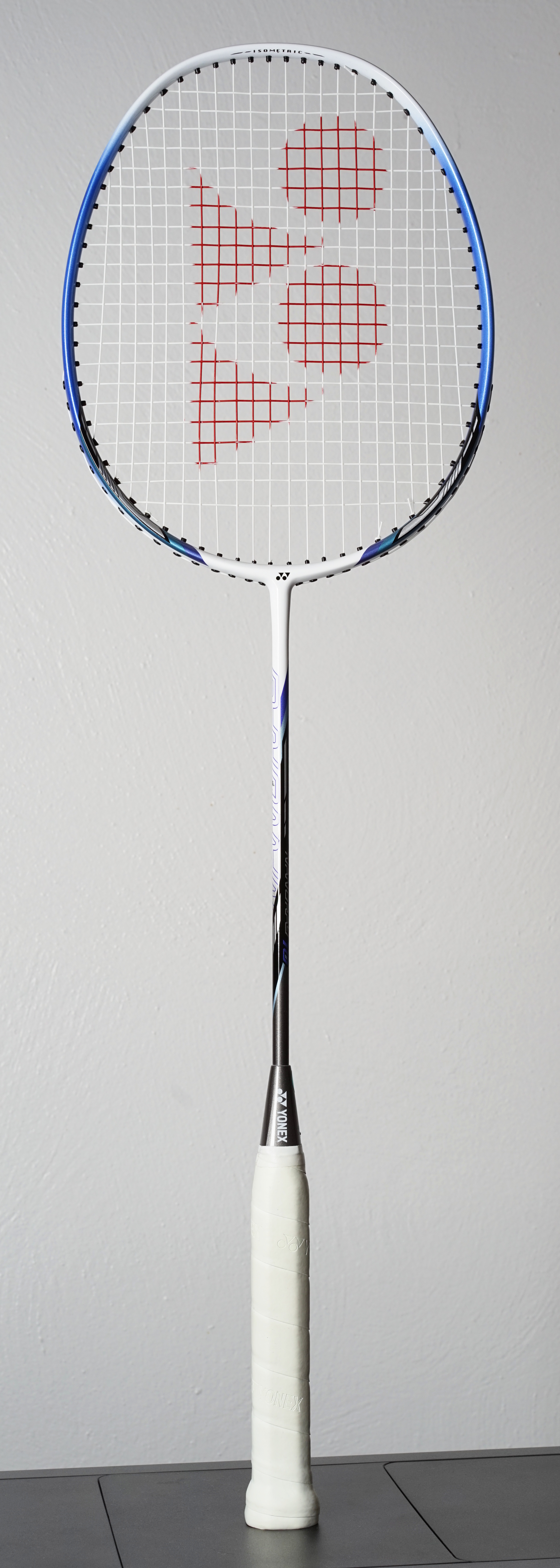 Entry level badminton racket manufactured by Yonex.